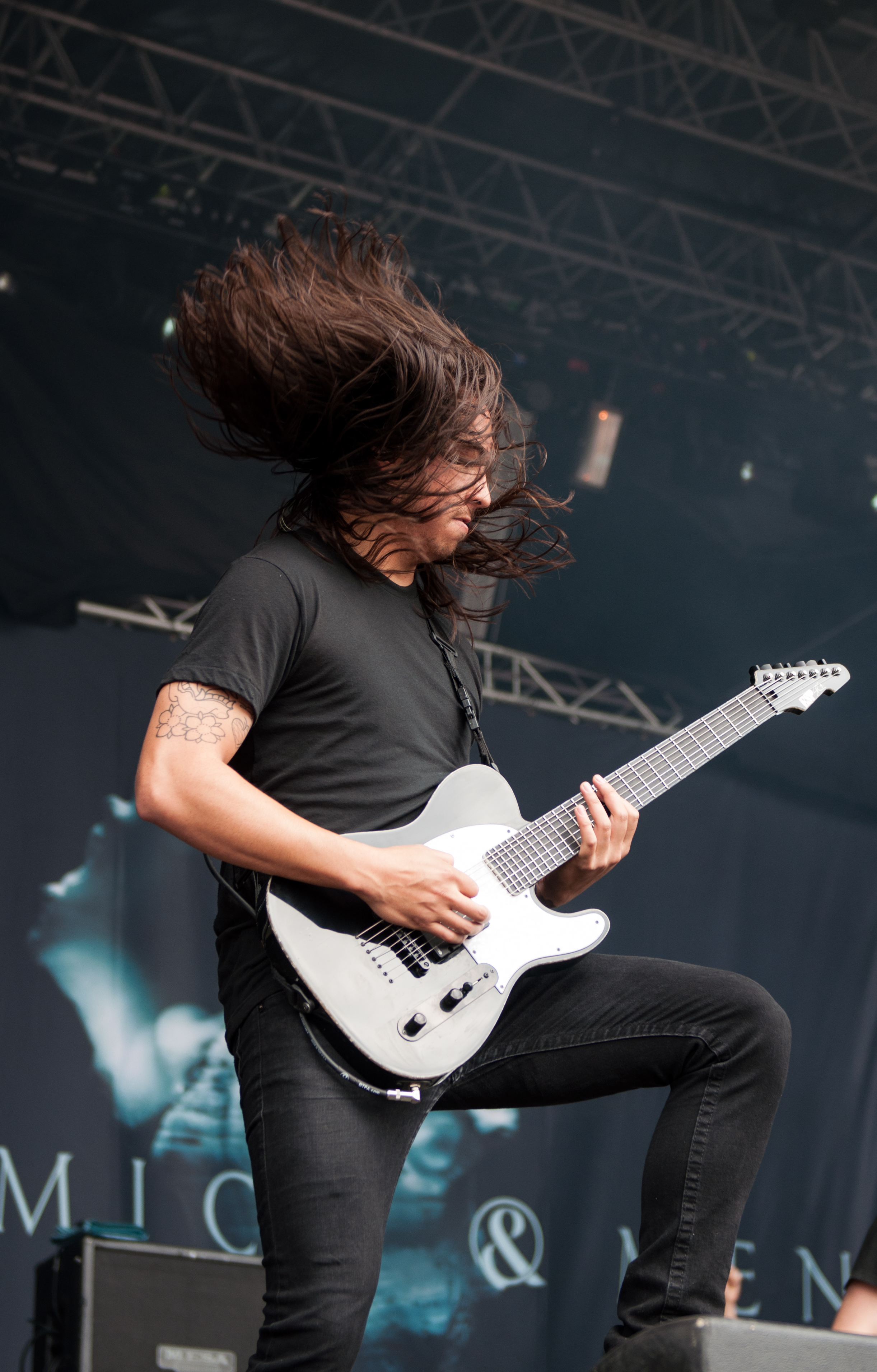 Of Mice & Men at Vainstream Rockfest 2014